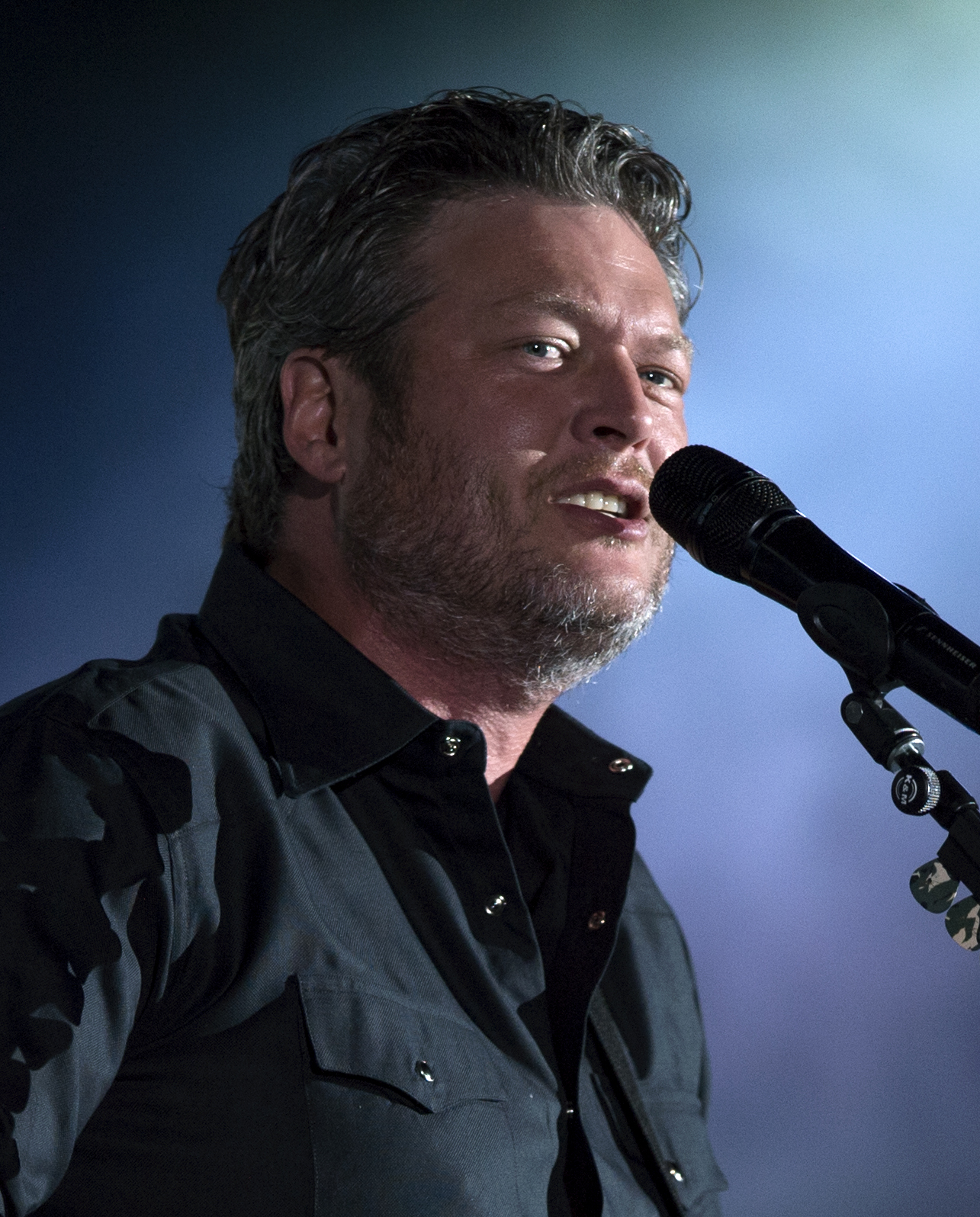 Recording artist Blake Shelton performs during the 2017 Department of Defense Warrior Games opening ceremonies at Soldier Field in Chicago July 1, 2017. The DoD Warrior Games are an annual event allowing wounded, ill and injured service members and veterans to compete in Paralympic-style sports. (DoD photo by EJ Hersom)